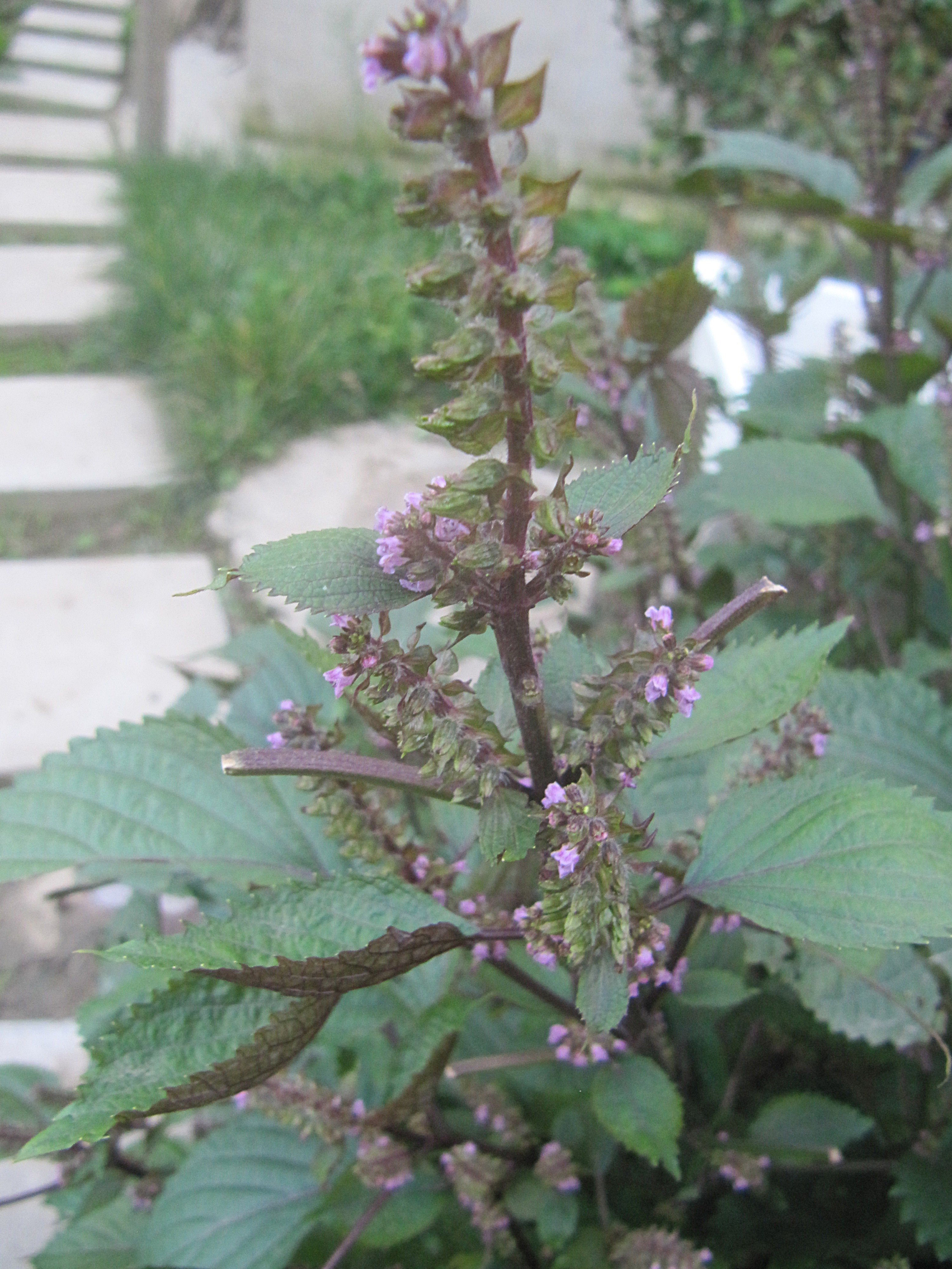 Perilla frutescens crispa viridis flowers and branch in Beijing, China